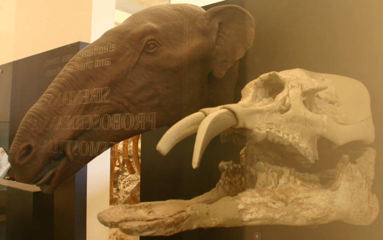 The extinct probocid.Phiomia minor